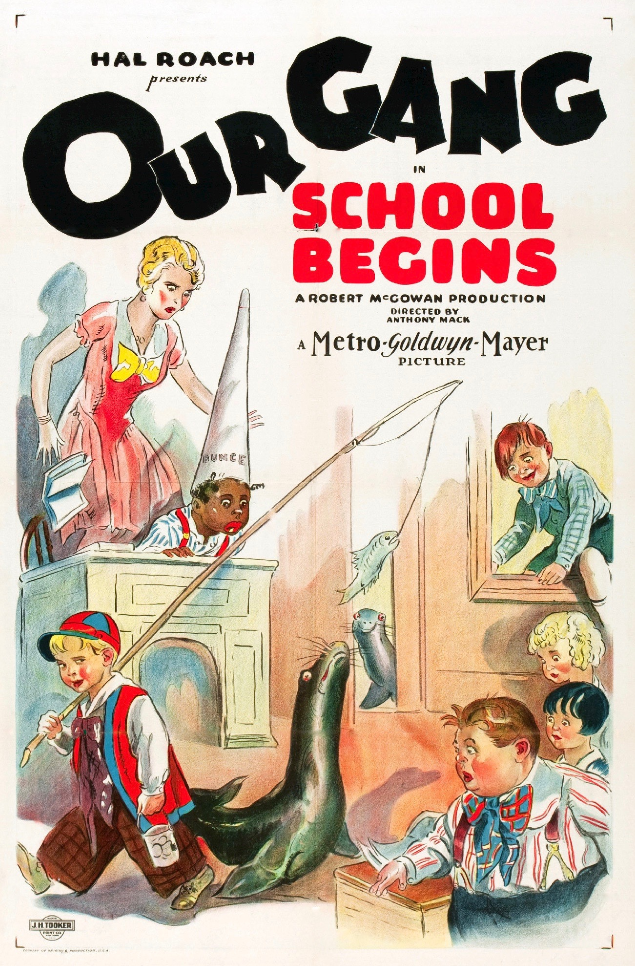 Poster for the 1928 Our Gang film School Begins. The item has no copyright markings on it as can be seen in the links above. At lower left is The J. H. Morgan Print Co. of New York's logo-they printed the poster, and Country of origin & production USA.